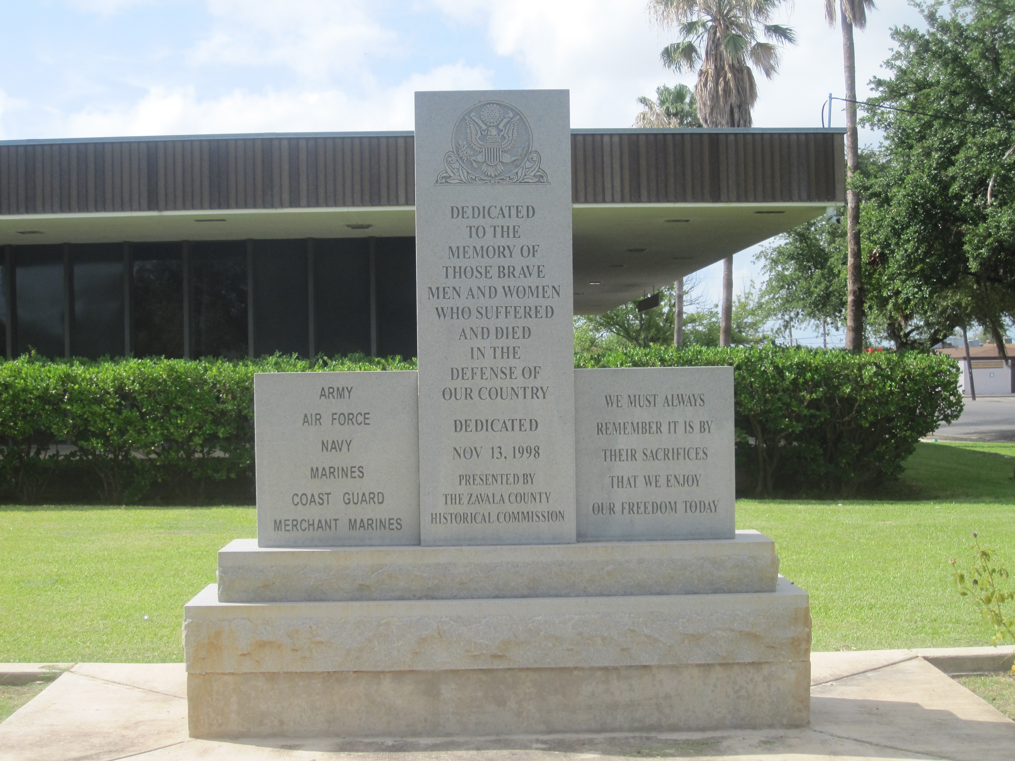 I took photp at courthouse grounds in Crystal City, TX, with Canon camera.